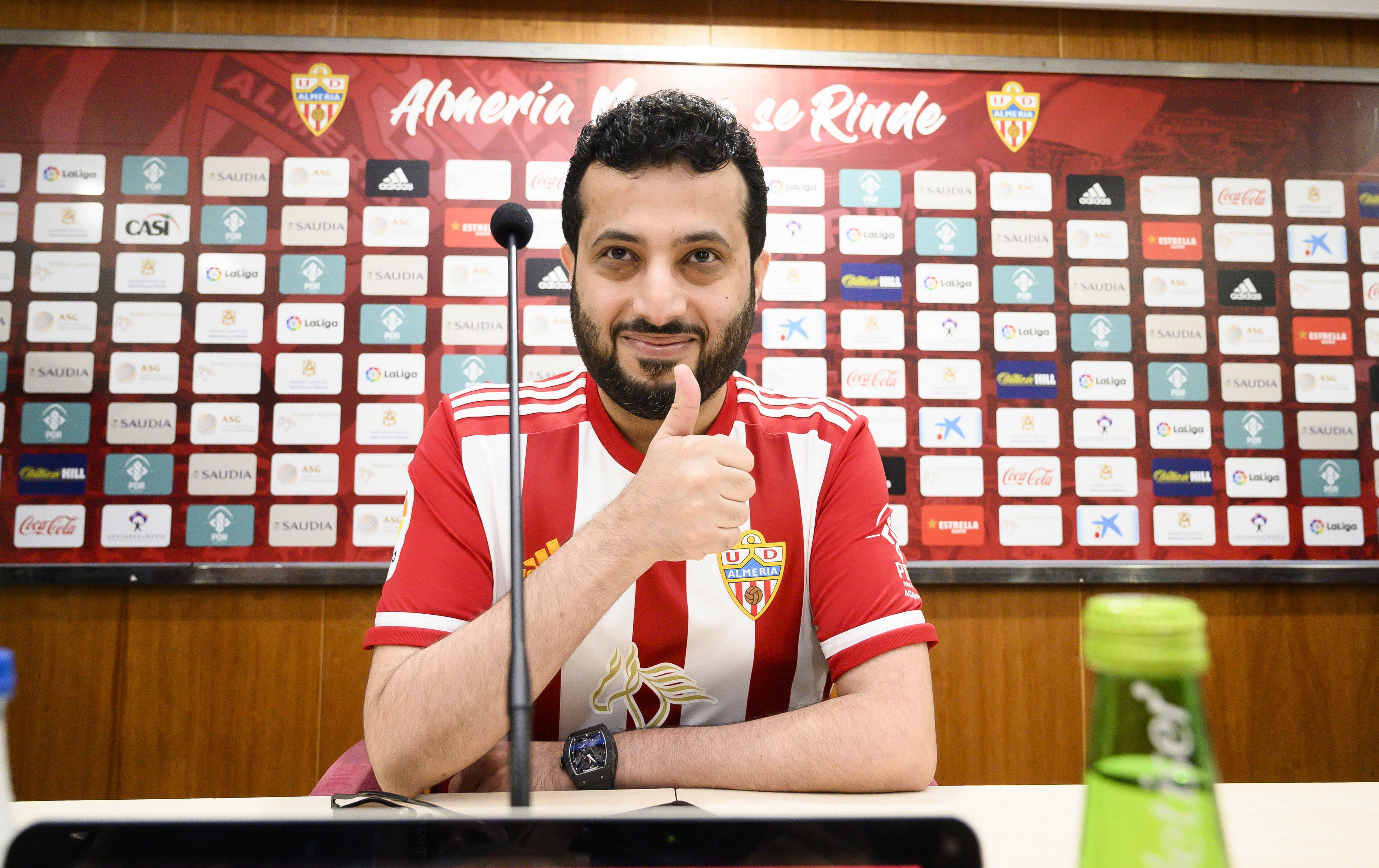 Press conference of Turki Al-Sheikh in the Estadio de los Juegos Mediterráneos with the U.D. Almería shirt